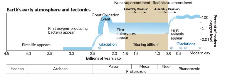 Proposed presence of oxygen in our atmosphere over Earth's Geological timescale.